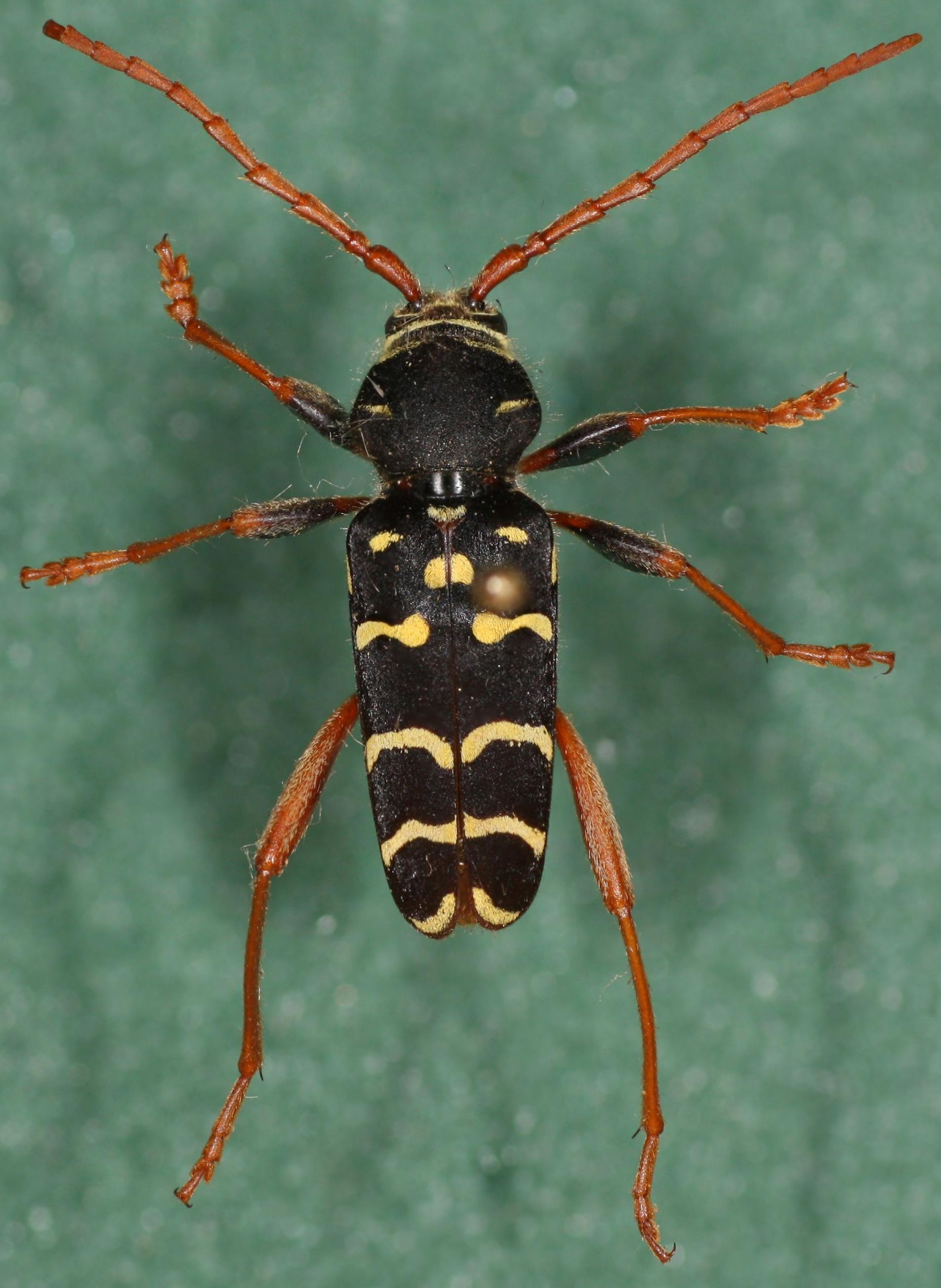 Male Longhorn beetle Plagionotus arcuatus